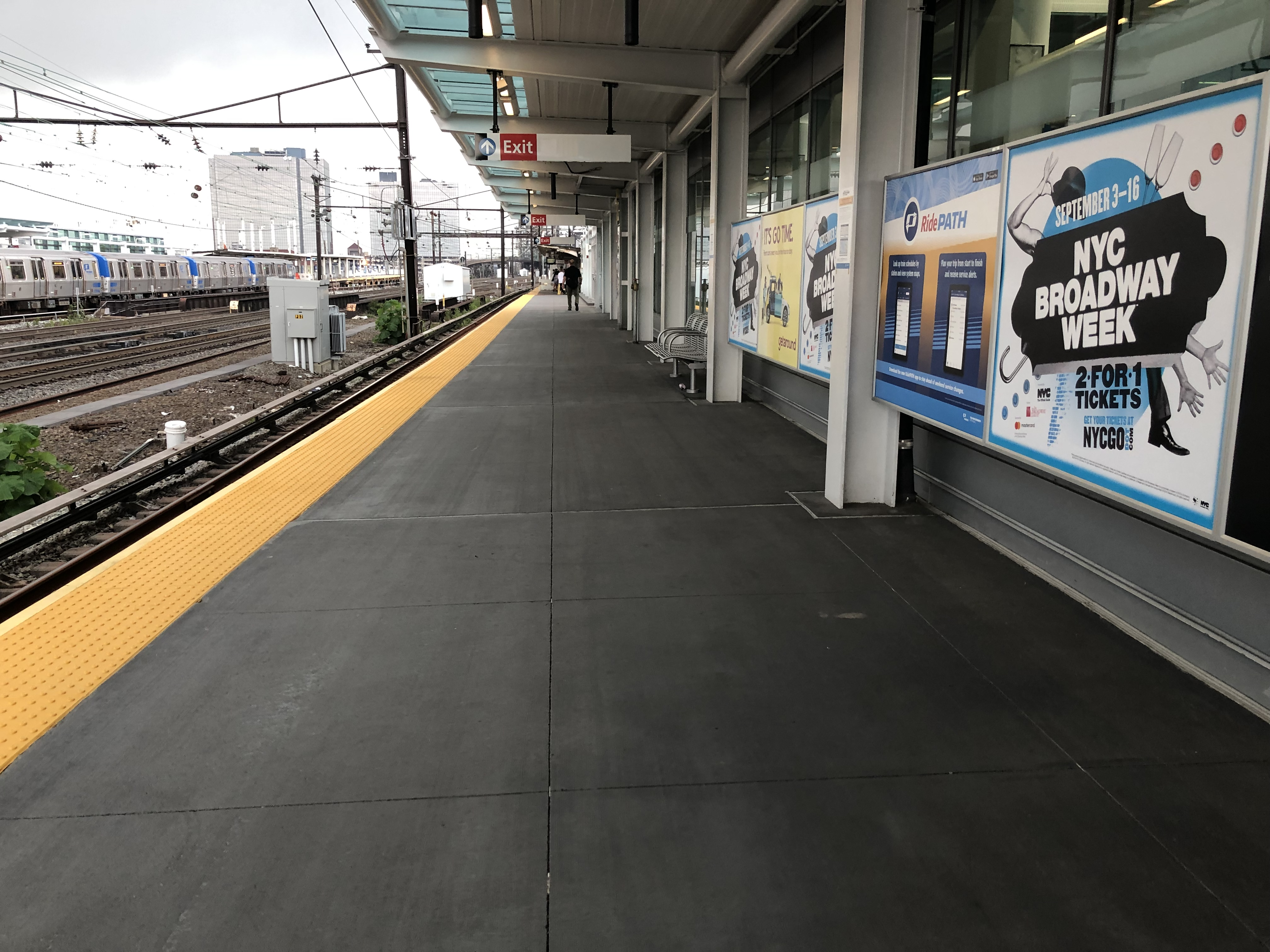 The Newark-bound platform of the new Harrison PATH train station. Please be aware that unless you are brave enough to do so, DO NOT TAKE PICTURES OF PATH WITHOUT PROPER PERMISSION FROM THE PORT AUTHORITY OF NEW YORK AND NEW JERSEY.